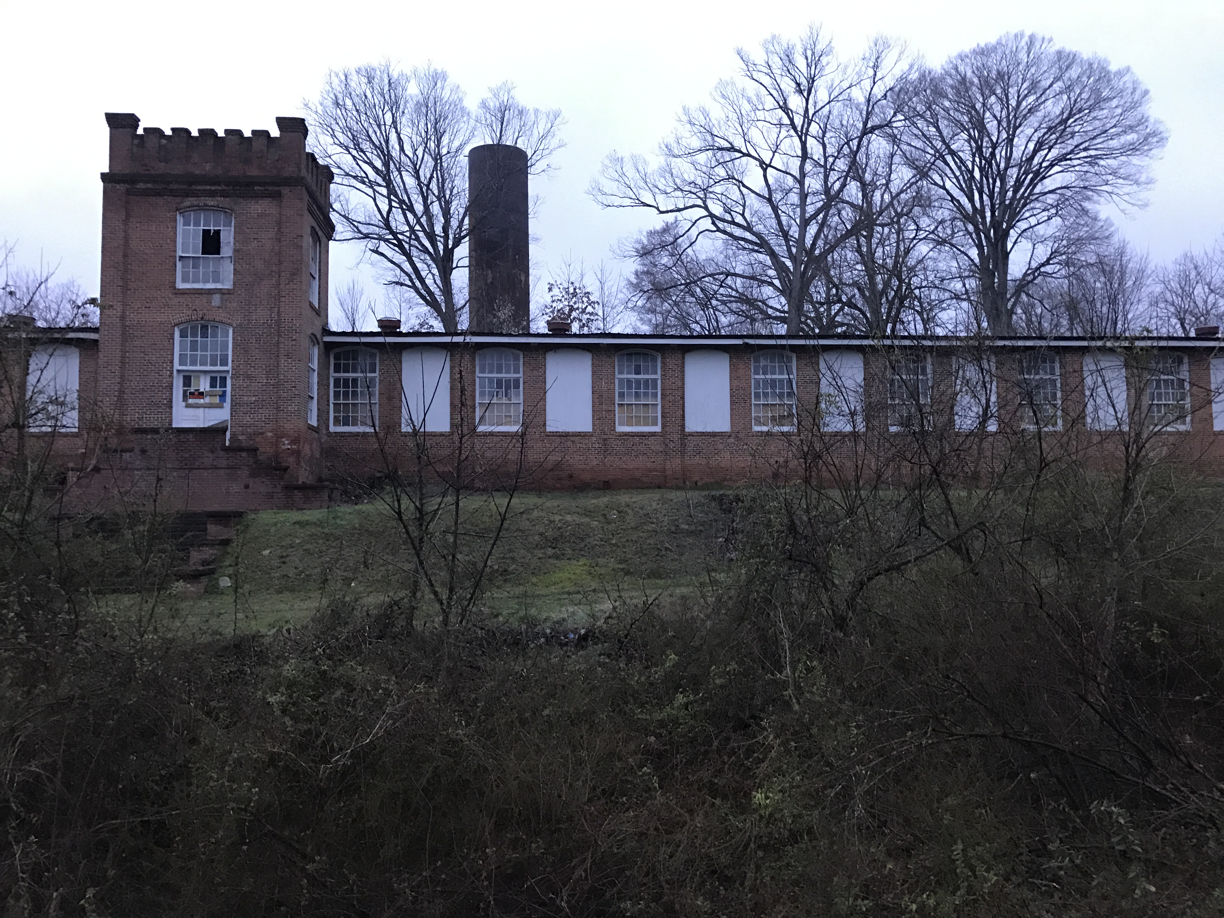 Defunct Enterprise Cotton Mill, Coleridge, North Carolina. Part of Coleridge Historic District.